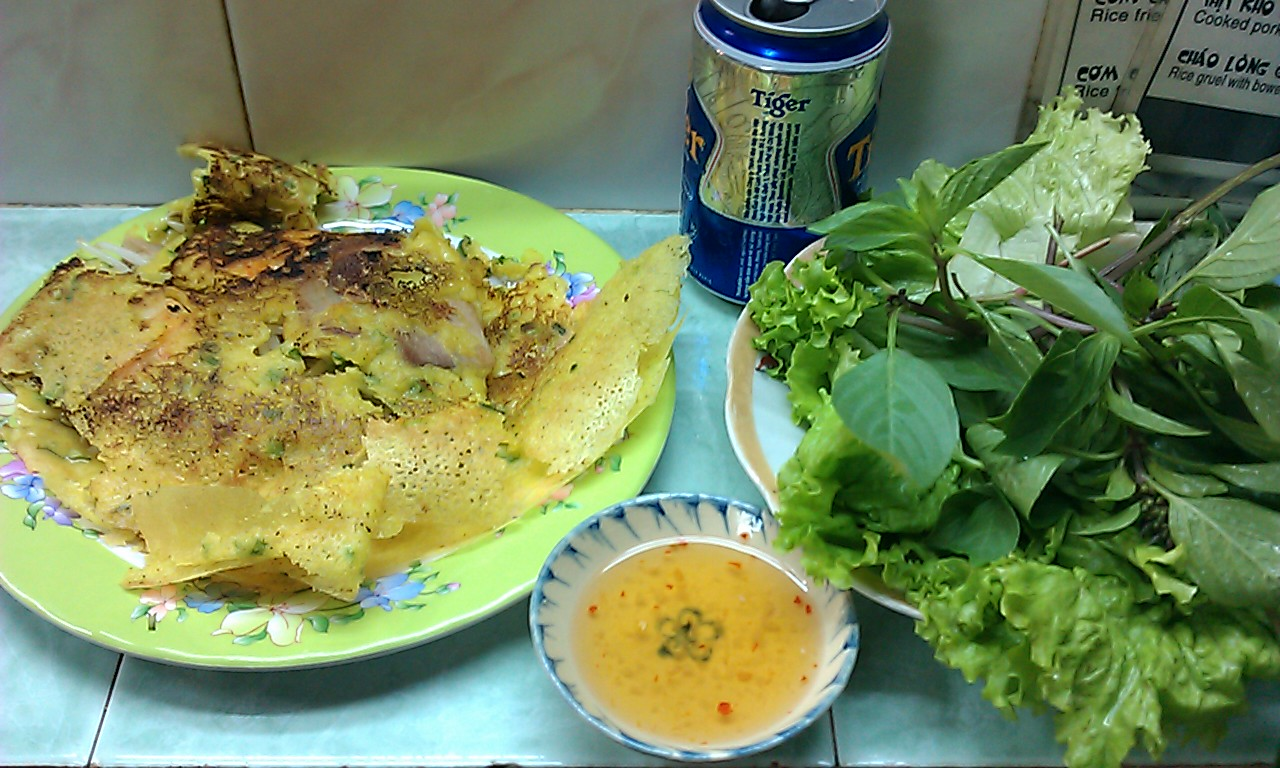 Bahn Xeo at Saigon city